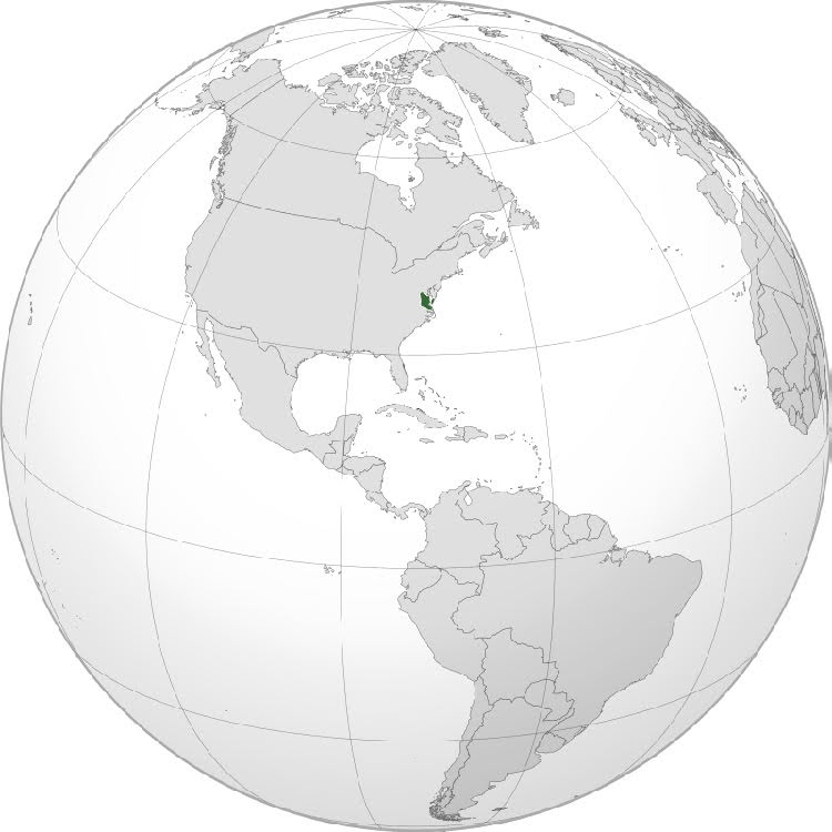 This shows the territory of the Powhatan Confederacy.